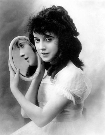 Actress Mabel Normand holding a small round mirror which reflects her face in profile. - 1910s female hair fashion, 1918